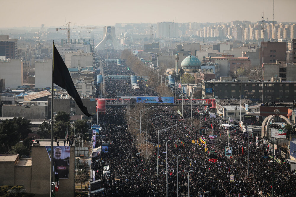 Funeral of Qasem Soleimani, Tehran, Iran on 6 January 2020.